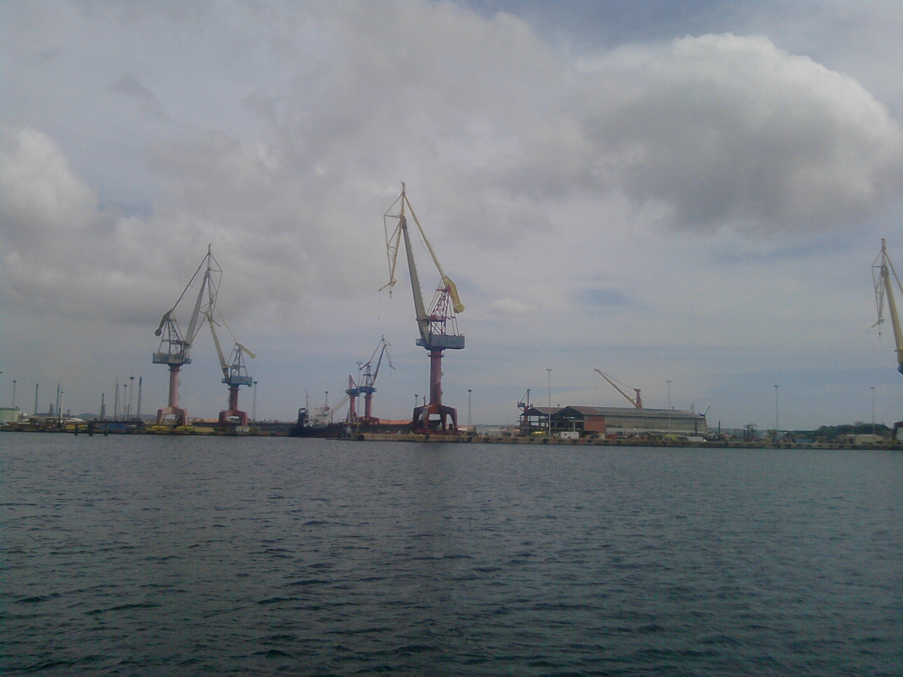 The industrial part of Willemstad's shipyard.